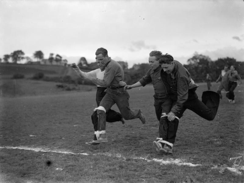 The Royal Navy during the Second World War The Canadian Navy at play at Greenock, a close finish to the three-legged race won by Stoker Heelam (Windsor, Ontario) and Stoker McDougal (Prince Edward Island) nearest the camera during the sports day for HMCS NIOBE in which both officers and ratings took part.